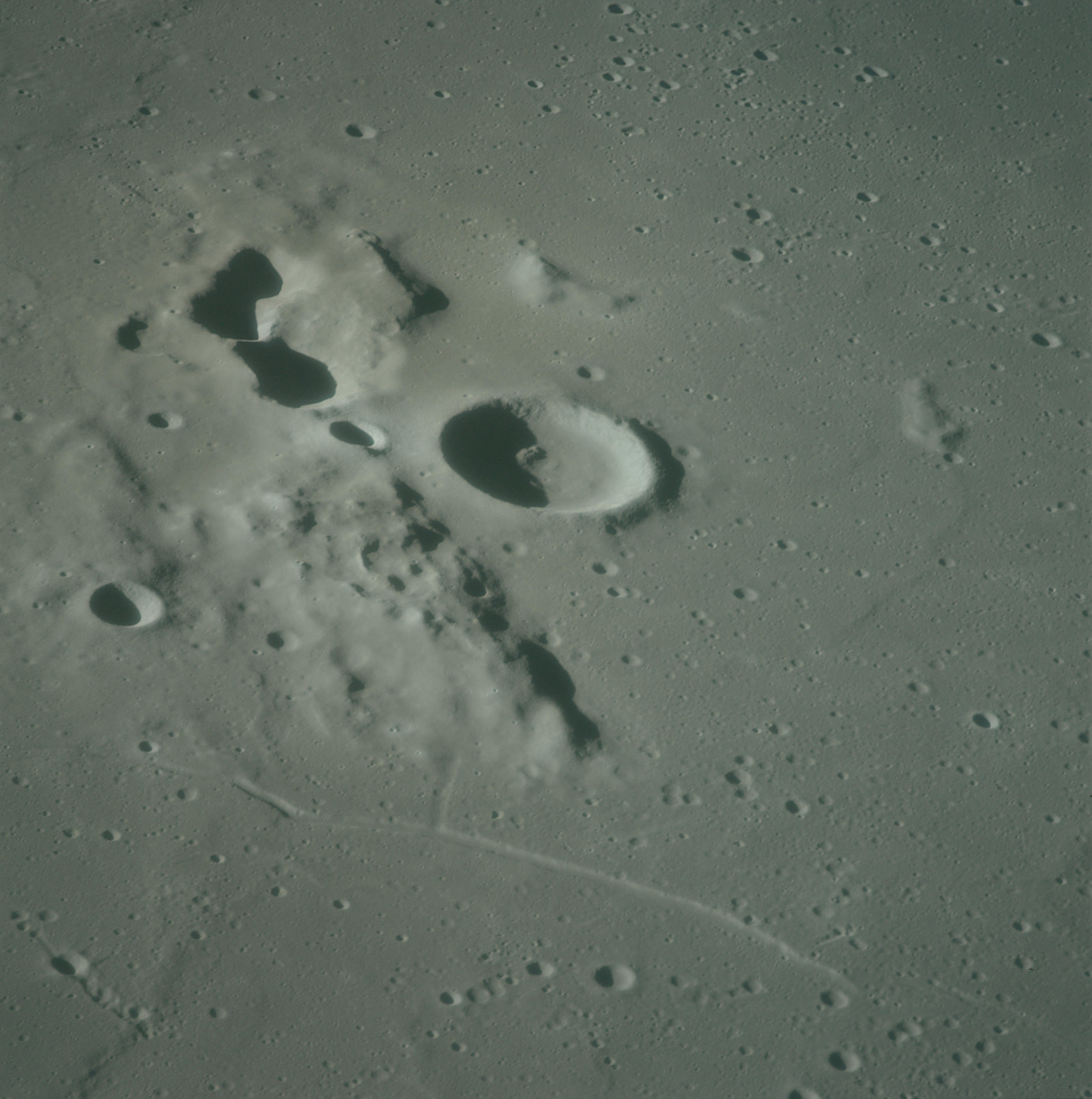 Oblique view of Lassell C crater (center), and the Lassell Massif (left), near Lassell crater, on the moon. This is figure 28-10 in the Apollo 16 Preliminary Science Report. The caption reads "Highland mass in Mare Nubium shows a distinct color boundary; area (1) is more tan than area (2)."